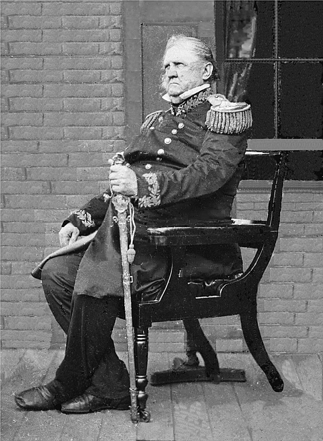 Lieut. Gen. Winfield Scott taken from glass negative. Photo needed extensive modification due to spotty and scratched condition. Edited by Cmguy777 at en.wikipedia.